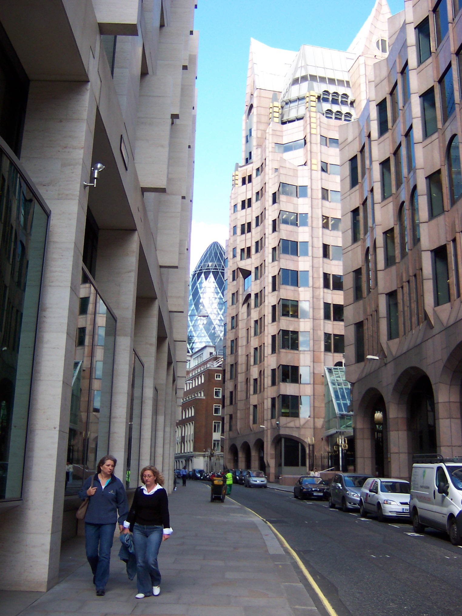 Looking north up Mincing Lane, London Camera: Kodak DX6340 Zoom License on Flickr (2011-02-13): CC-BY-SA-2.0 Flickr tags: London, The Gherkin, Swiss Re Building, Mincing Lane